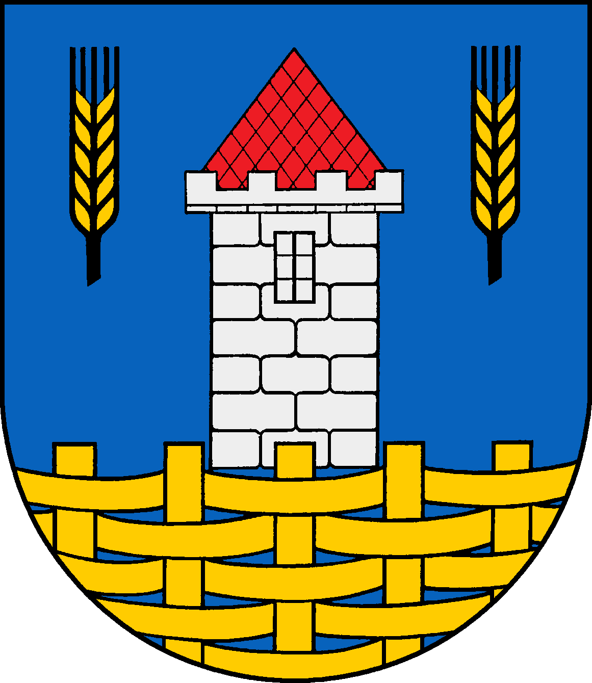 Coat of arms of the municipality Klixbüll in Schleswig-Holstein, Germany.